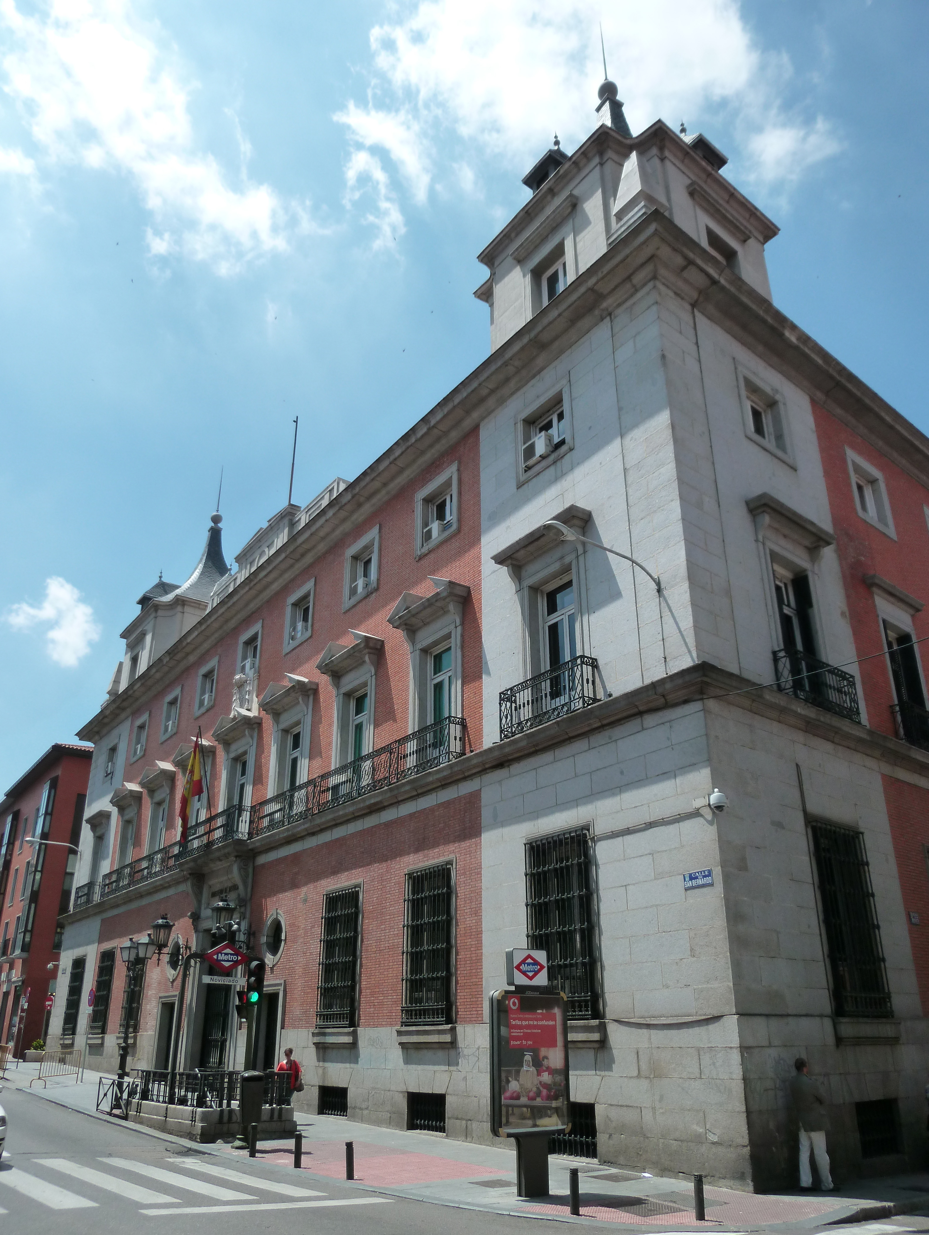 East façade of the Spanish Ministry of Justice, at 45 Calle de San Bernardo (street) in Centro district in Madrid. Building was projected in 1797 by Evaristo del Castillo and built from 1797 to 1828 as a palace for the marchioness of Sonora.